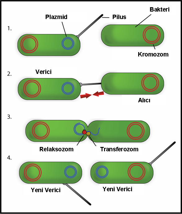 Overview of bacterial conjugation in 4 steps.